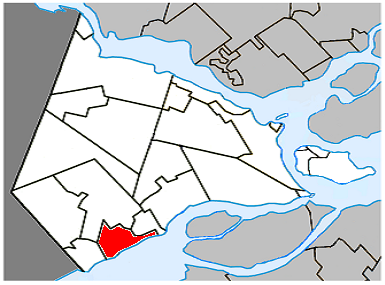 Location of Saint-Zotique, Quebec within Vaudreuil-Soulanges Regional County Municipality.